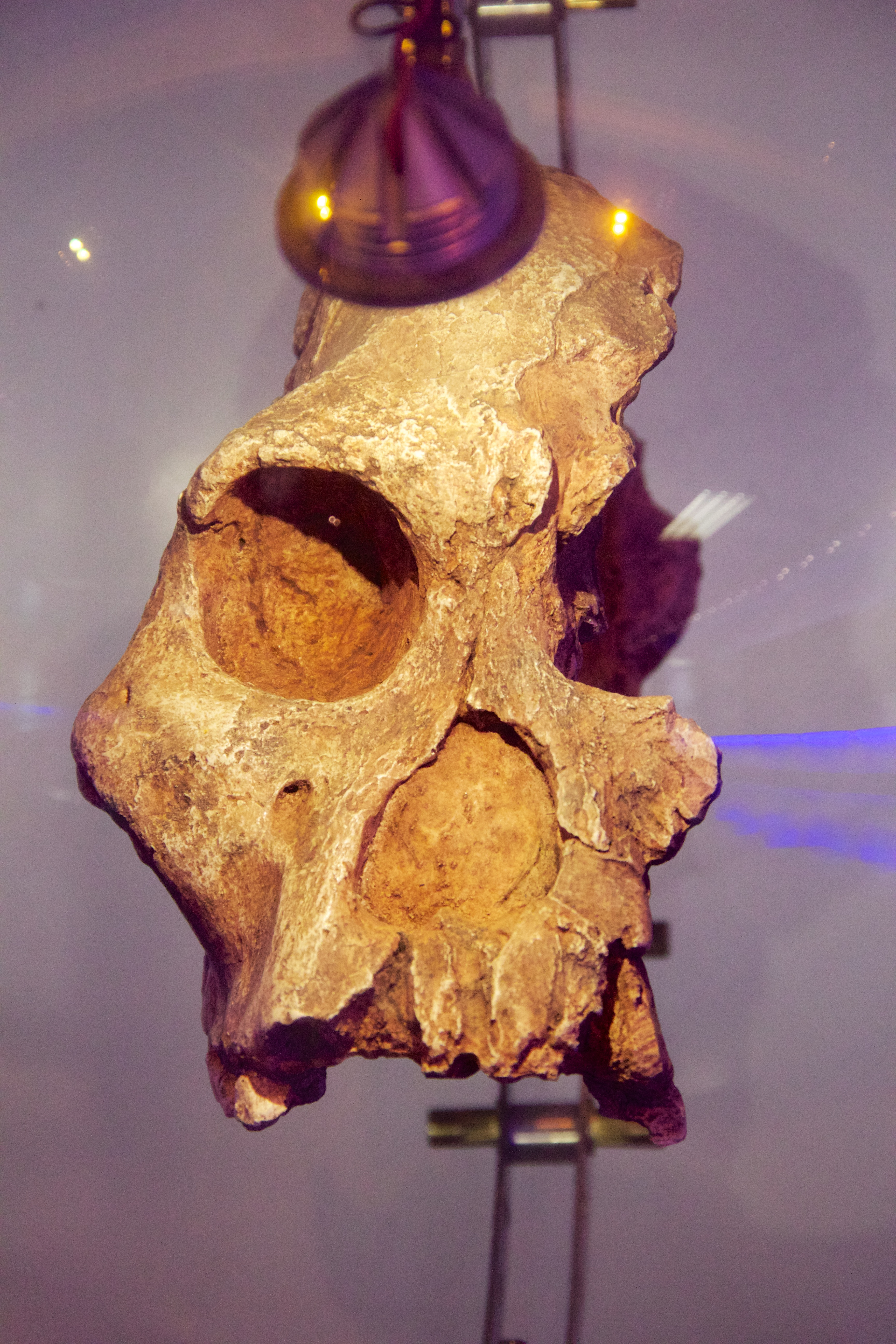 Australopithecus africanus, partial skull, (Sts 71), Sterkfontein, 1947